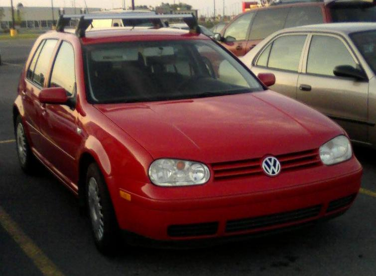 Volkswagen Golf photographed in Vaudreuil-Dorion, Quebec, Canada.